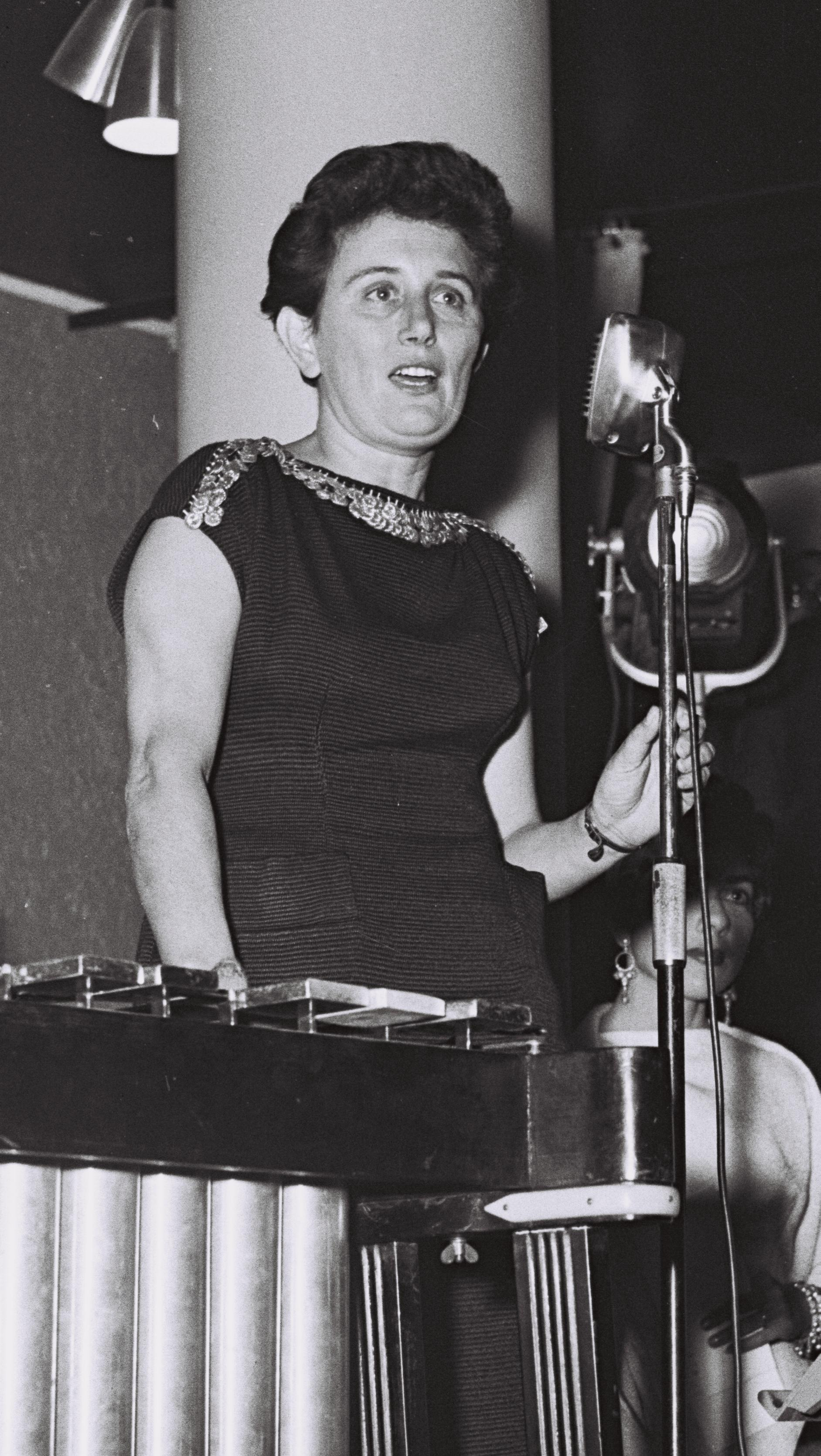 MRS. RUTH DAYAN, MANAGING DIRECTOR OF MASKIT ISRAEL VILLAGE CRAFTS LTD.